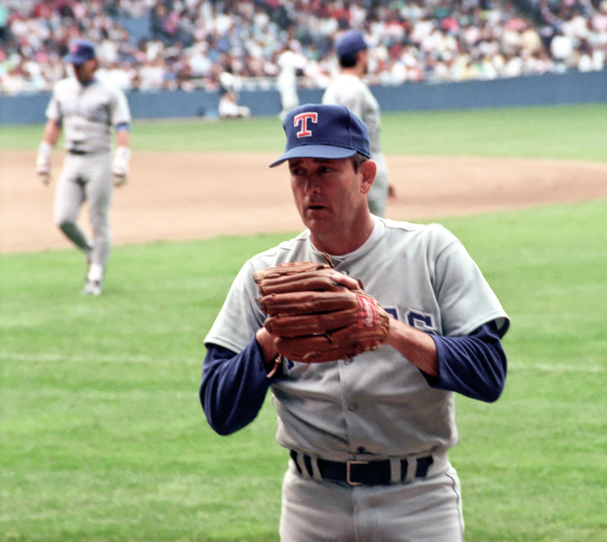 Nolan Ryan warning up in the bullpen at Tiger Stadium.